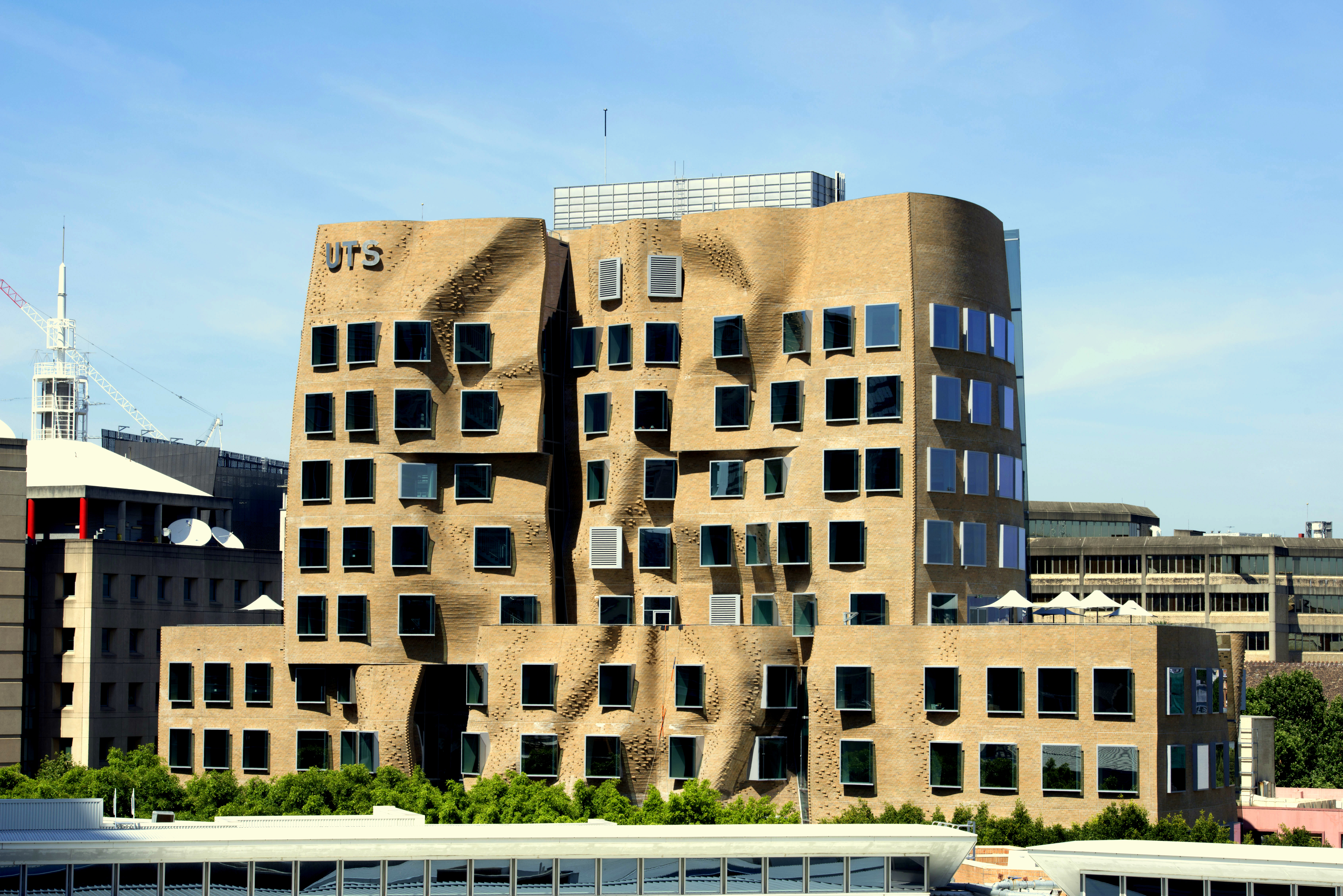 Dr. Chau Chak Wing Building, University of Technology Sydney